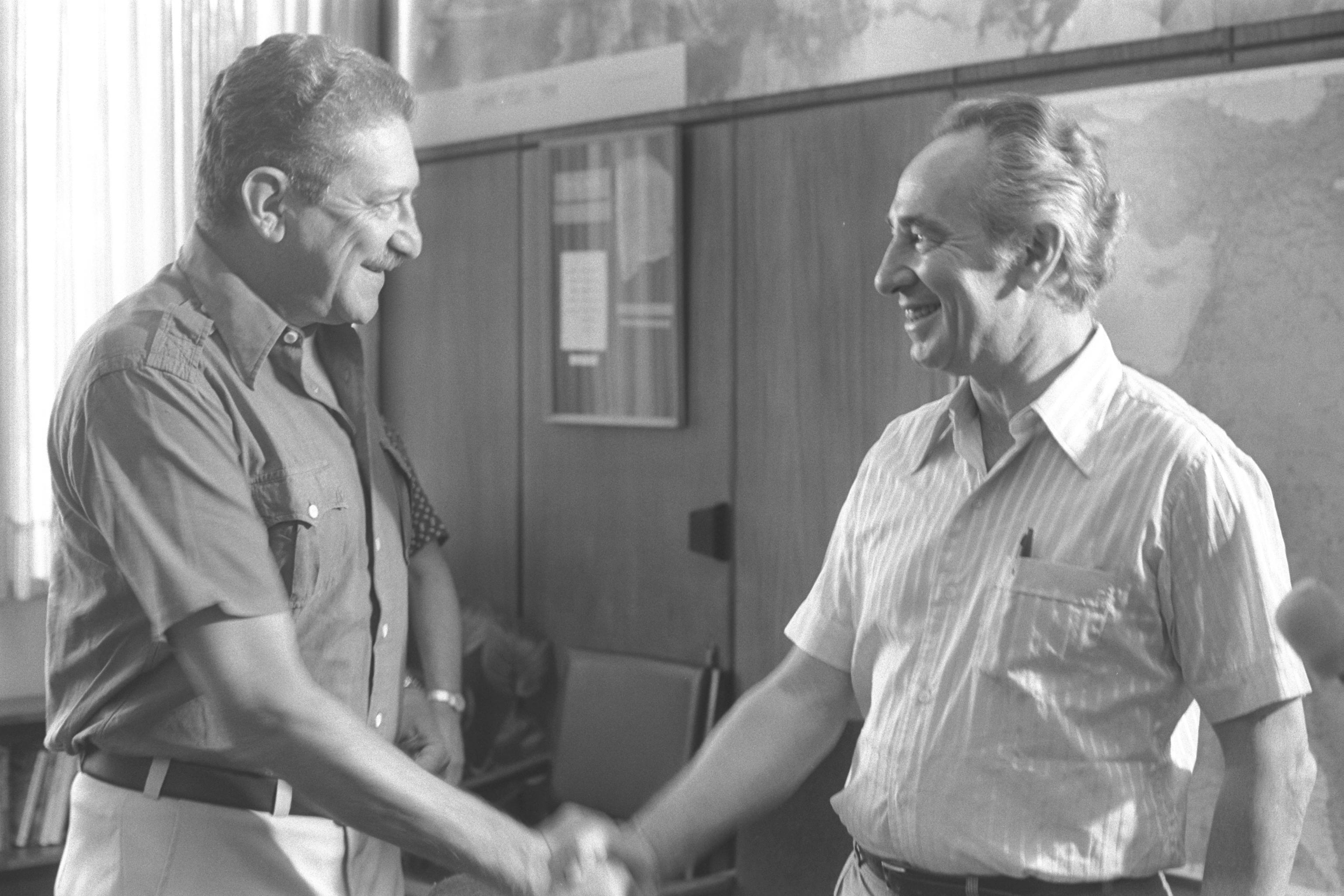 Defense Minister Ezer Weizman (left) shakes hands with outgoing Defense Minister Shimon Peres at his office in Tel Aviv. לחיצת יד בין שר הבטחון היוצא שמעון פרס (מימין) לשר הנכנס עזר ויצמן במשרד הבטחון בתל אביב. Photo: Moshe Milner (1946–) Alternative names Miylner, Moše; Milner, Mosheh; Moshé Milner; Milner, M.; Mîlner, Moše; Miylner, MošehDescriptionIsraeli photographerצלם ישראליDate of birth 1946 Location of birth Germany Authority control : Q28750411 VIAF: 100999744 ISNI: 0000 0001 0804 0507 LCCN: n82072104 GND: 115699732 BNF: 15548788n WorldCat creator QS:P170,Q28750411 , 06/21/1977